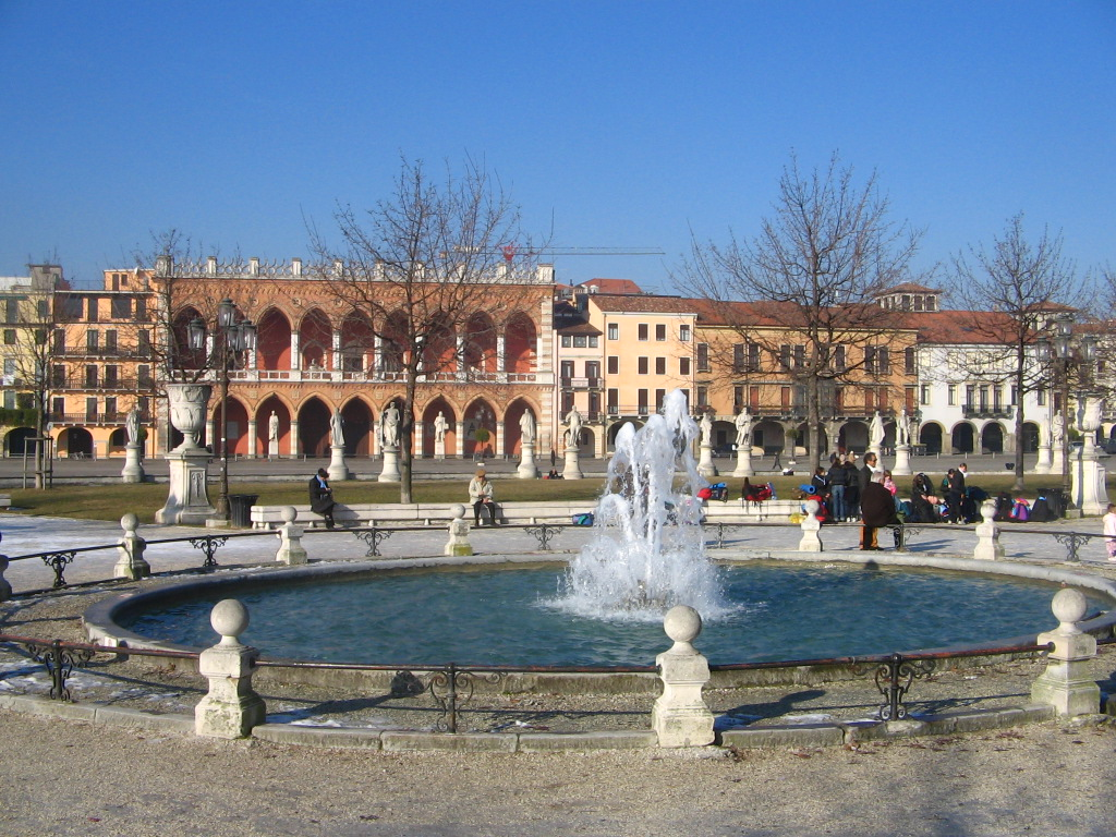 Vista del Prato della Valle, Padova - Italia, particolare della fontana. A view of Prato della Valle, Padua - Italy, the fountain in the center of the square. Made by Piero tasso the 22 of January, 2006